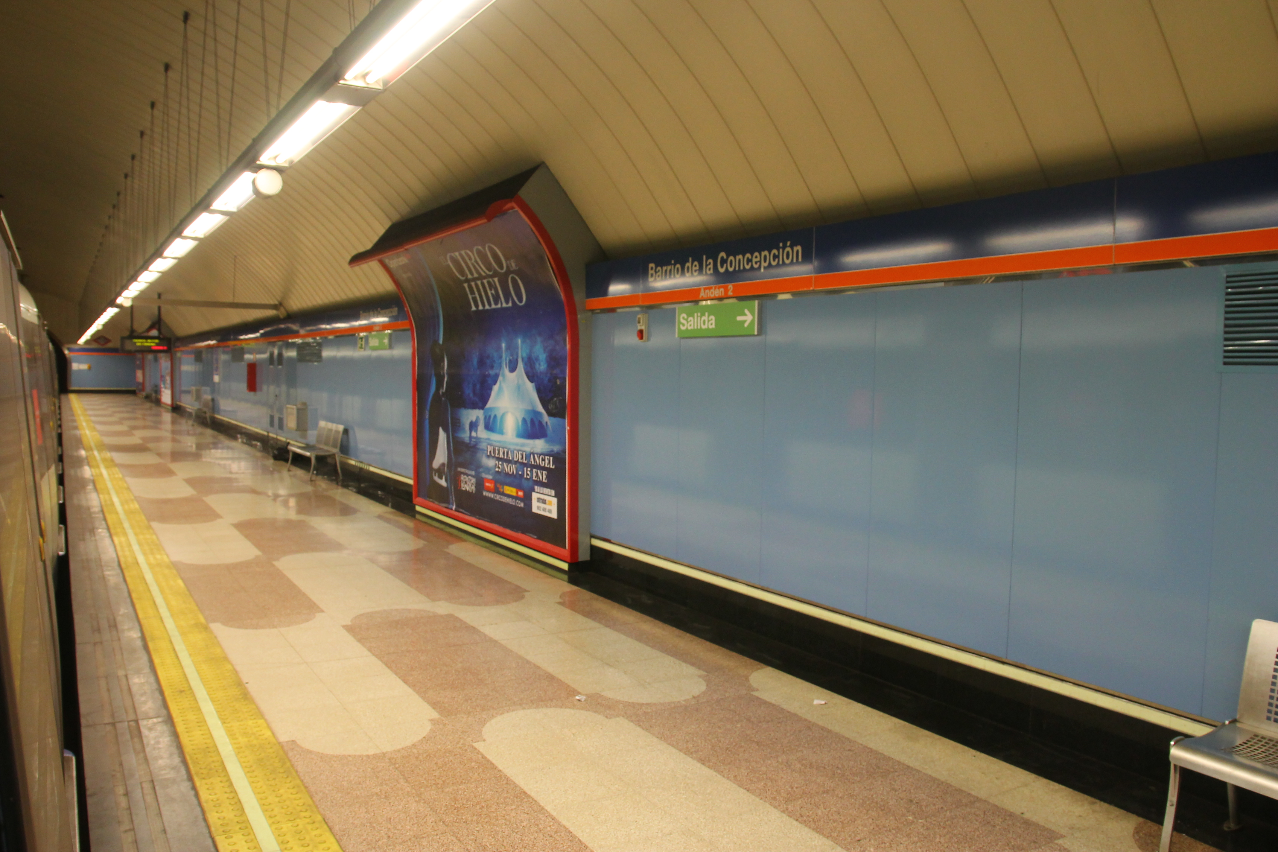 Estación de Barrio de la Concepción